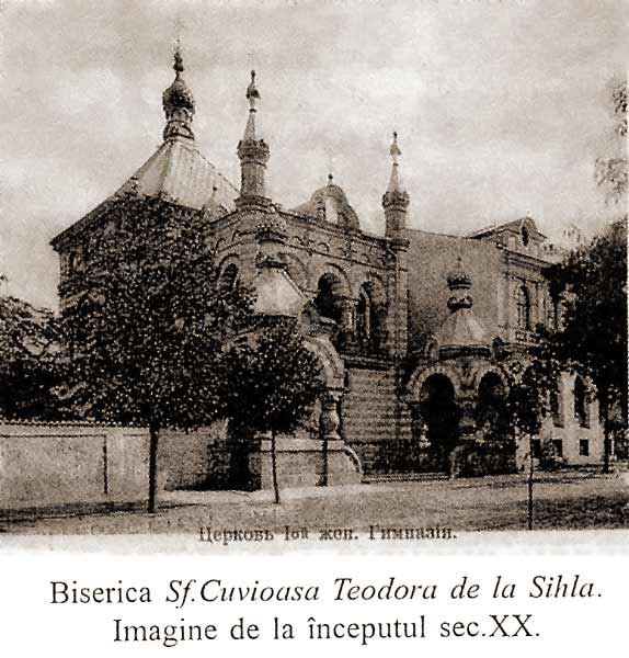 Stone Church of Saint Theodora from Sihla, by architect Al. Bernardazzi, is built in 1895 in Downtown Chişinău. Designed and built as a Cathedral of girls high school in Chişinău, the church of Saint Teodora de la Sihla is an architectural masterpiece by Al Bernardazzi. The building have the fingerprints of Byzantine style, typical for the creation of architect A. Bernardazzi. It is of national importance in Moldova and the owner is Metropolis of Bessarabia.